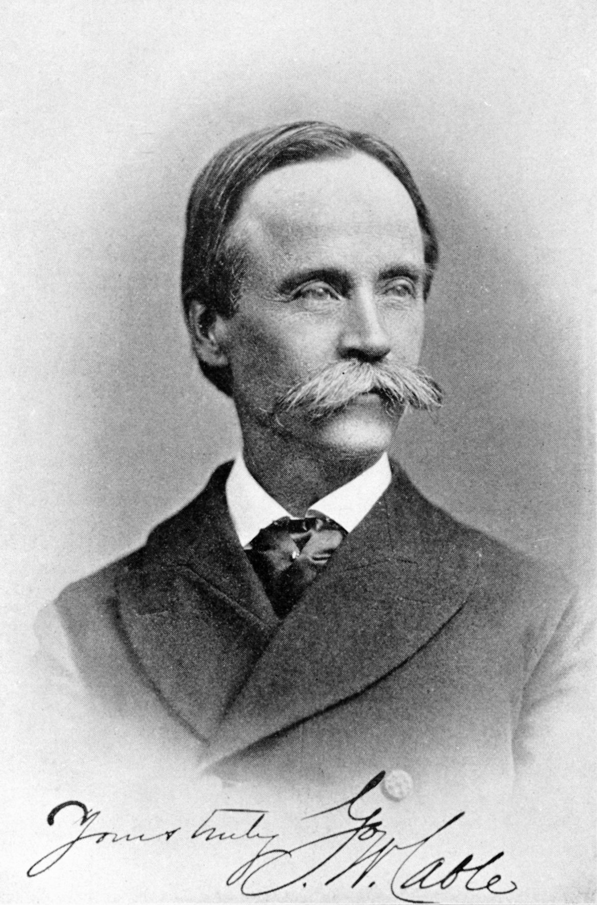 G W Cable